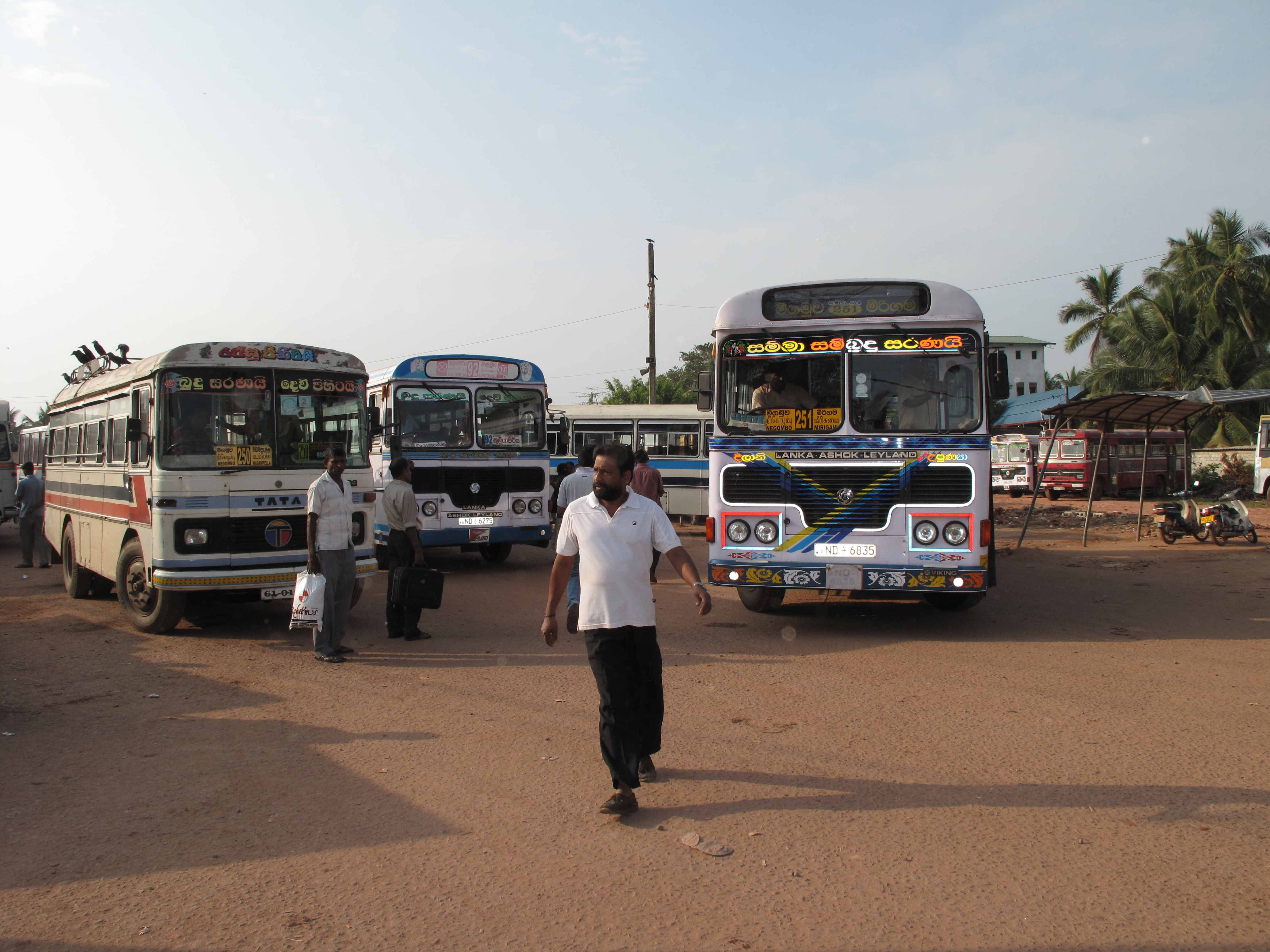 Bus station in Negombo, Sri Lanka. Personality rights warning Although this work is freely licensed or in the public domain, the person(s) shown may have rights that legally restrict certain re-uses unless those depicted consent to such uses. In these cases, a model release or other evidence of consent could protect you from infringement claims.